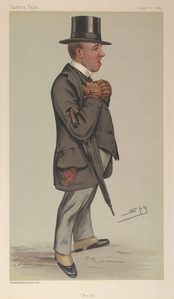 Men of the Day No.289: Caricature of William Cholmondeley, 3rd Marquess of Cholmondeley, The Earl of Rocksavage. Caption reads: "Rock"